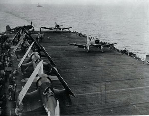 U.S. Marine Corps Vought F4U-2 Corsairs of Marine Night Fighting Squadron 532 (VMF(N)-532) aboard the escort carrier USS Windham Bay (CVE-92) on 12 July 1945.